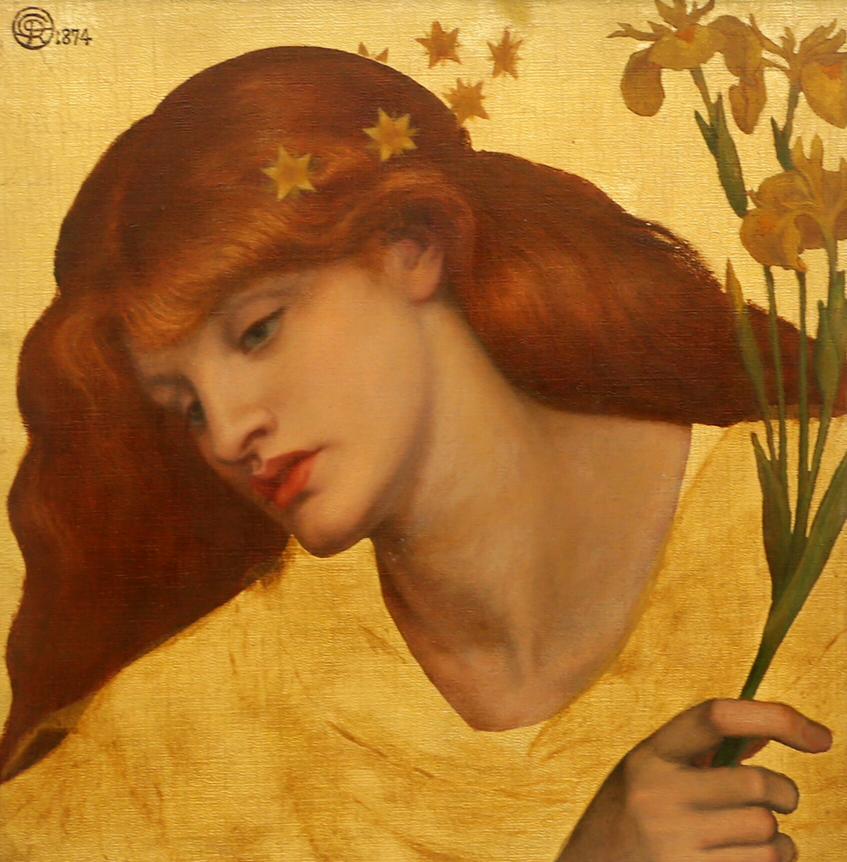 Sancta Lilias